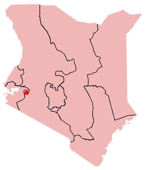 Kericho, Kenya Location Map; created with the GIMP. Made by User:Acntx.